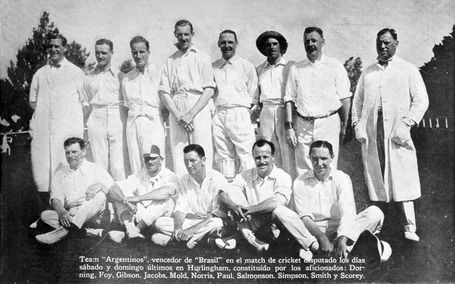 Argentina national cricket team in 1921. That was the team which defeated Brazil in a match played in Hurlingham, Buenos Aires.